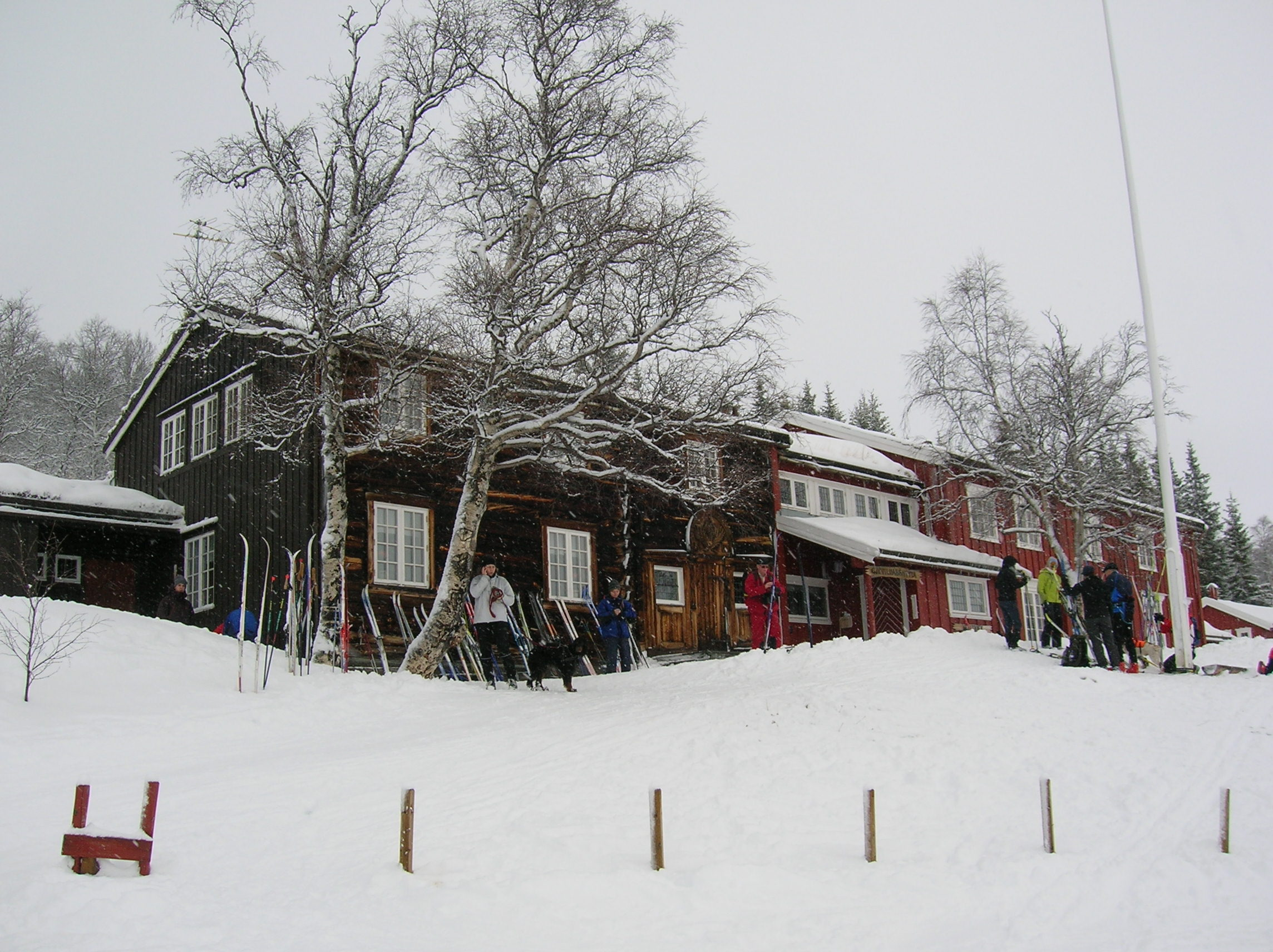 Gjevilvasshytta in Trollheimen in Norway